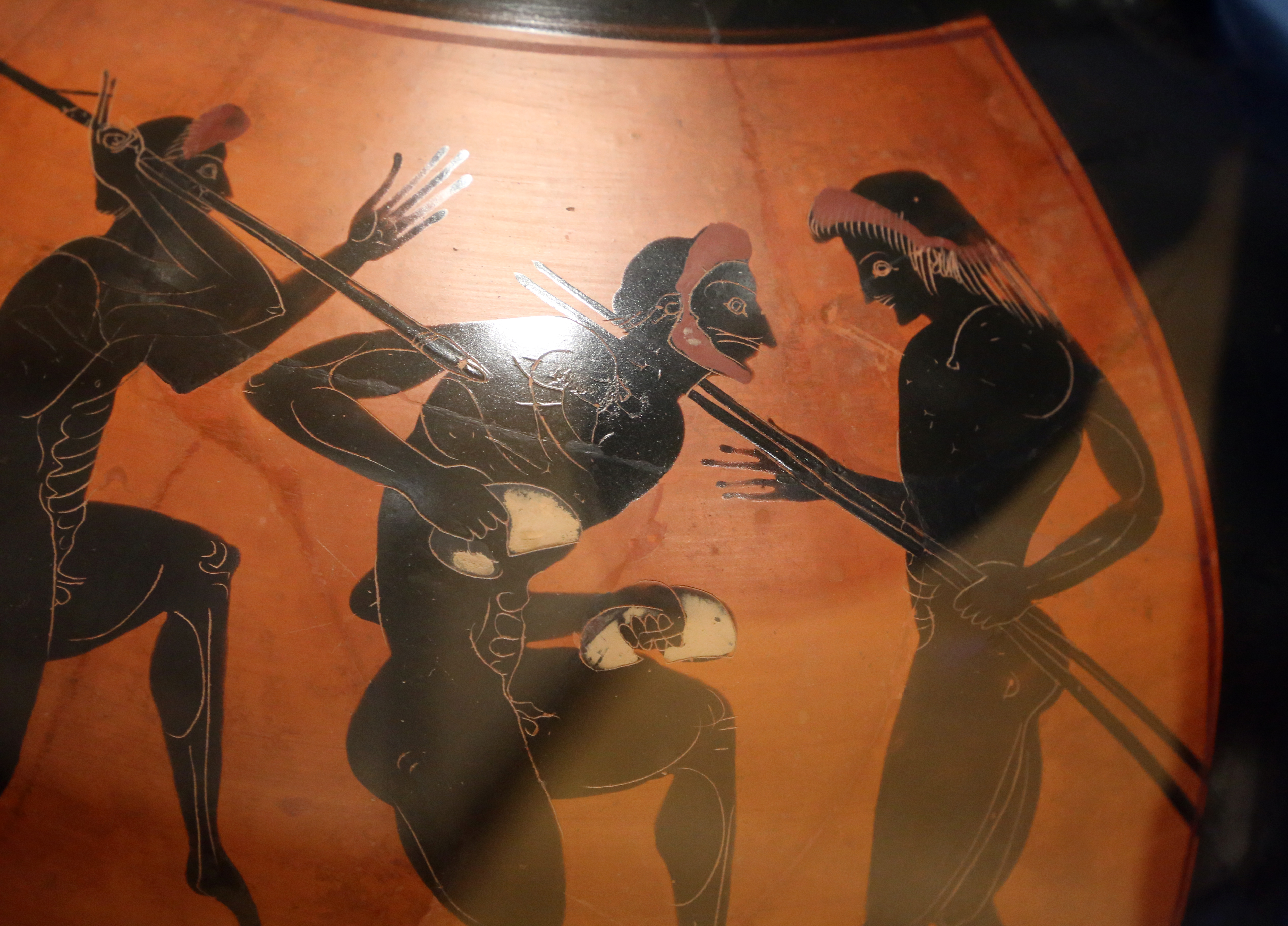 Ancient Greek antiquities in the Rijksmuseum van Oudheden